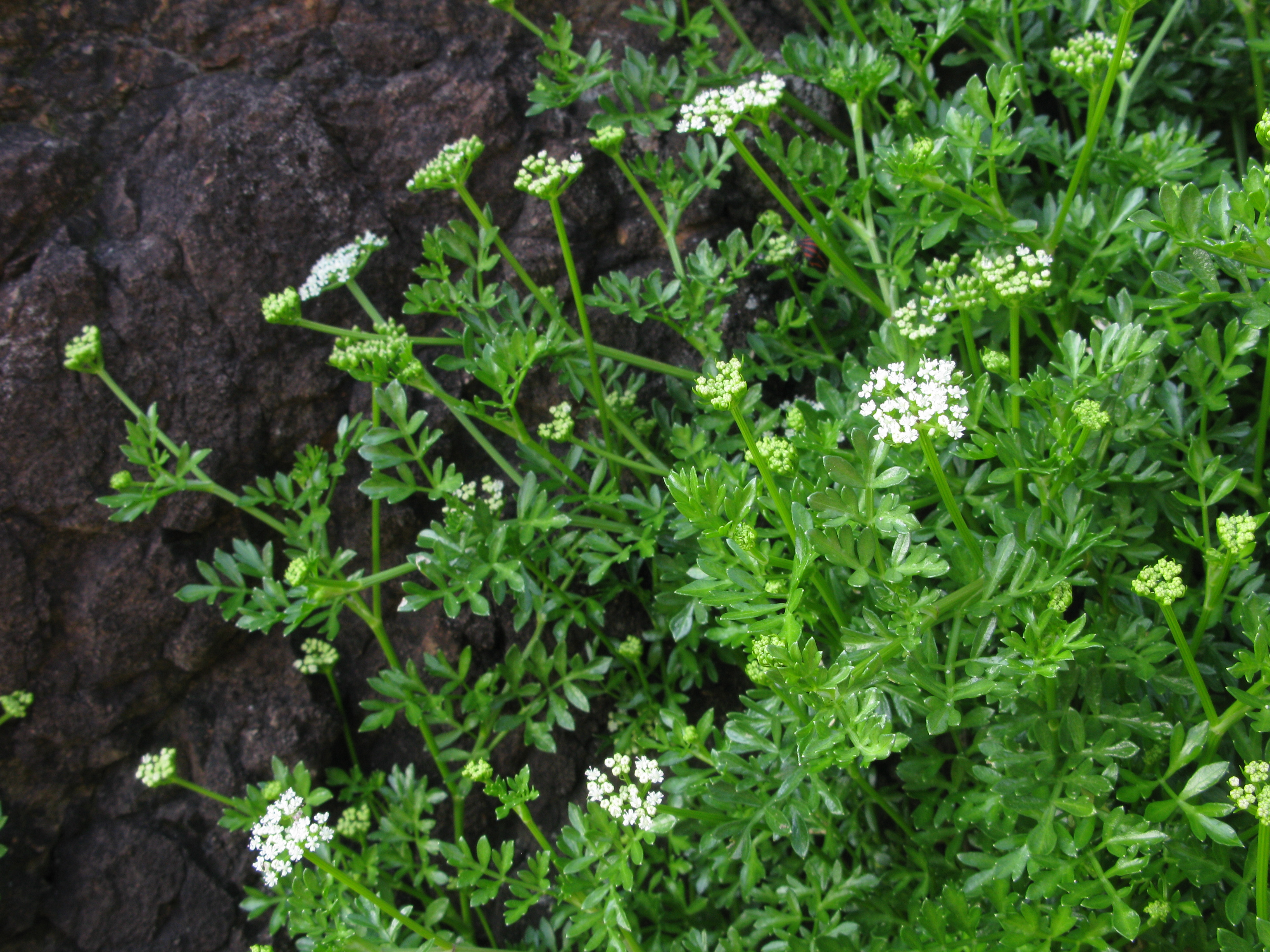 Cnidium japonicum, Shōnai area, Yamagata pref., Japan